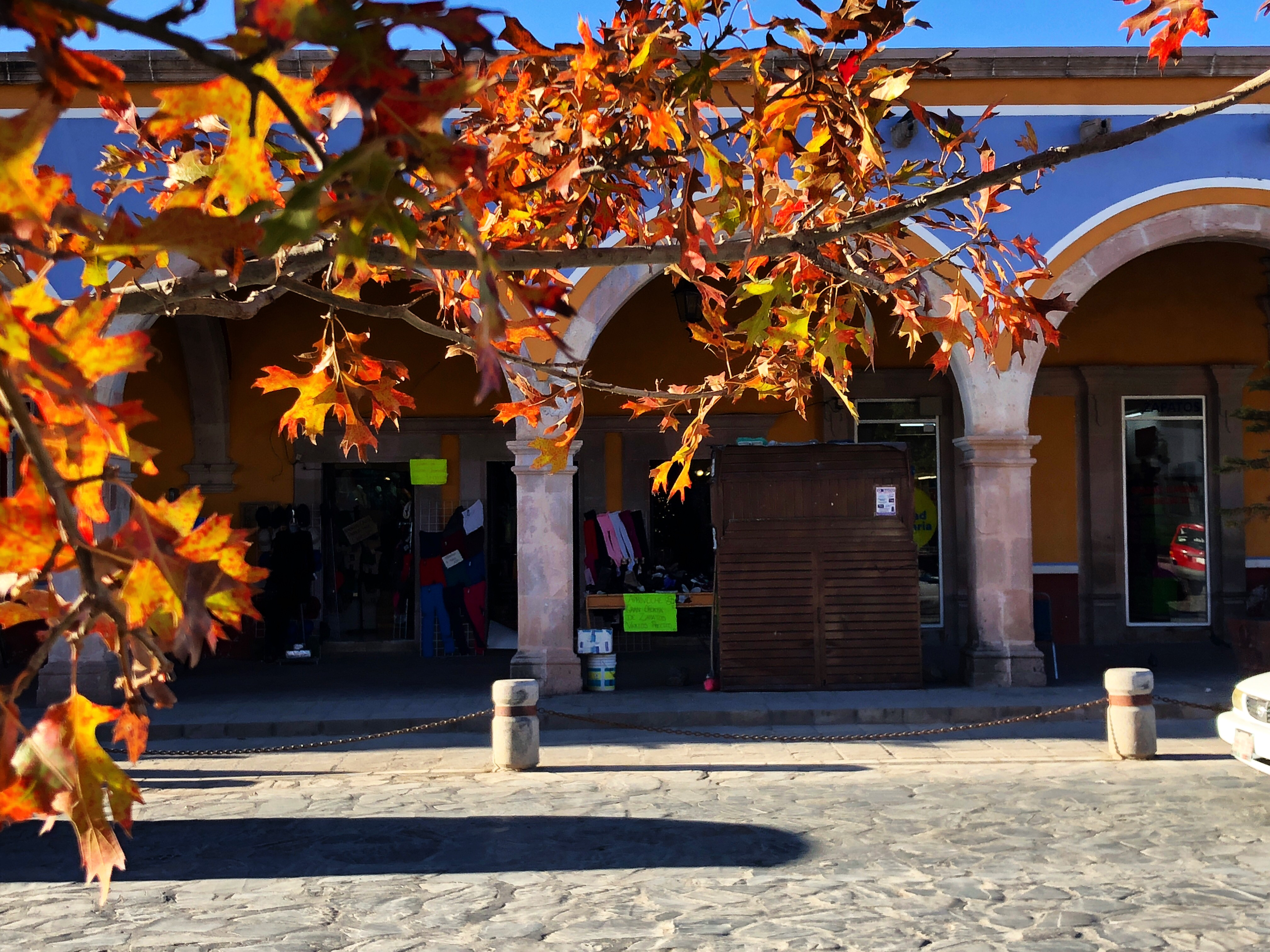 Sombrerete, Zacatecas